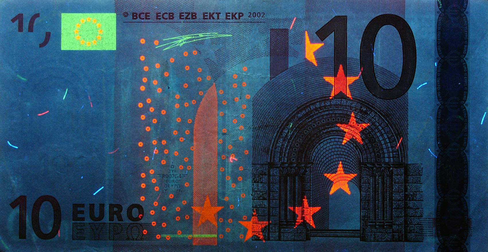 10-euro banknote under fluorescent light (UV-A)